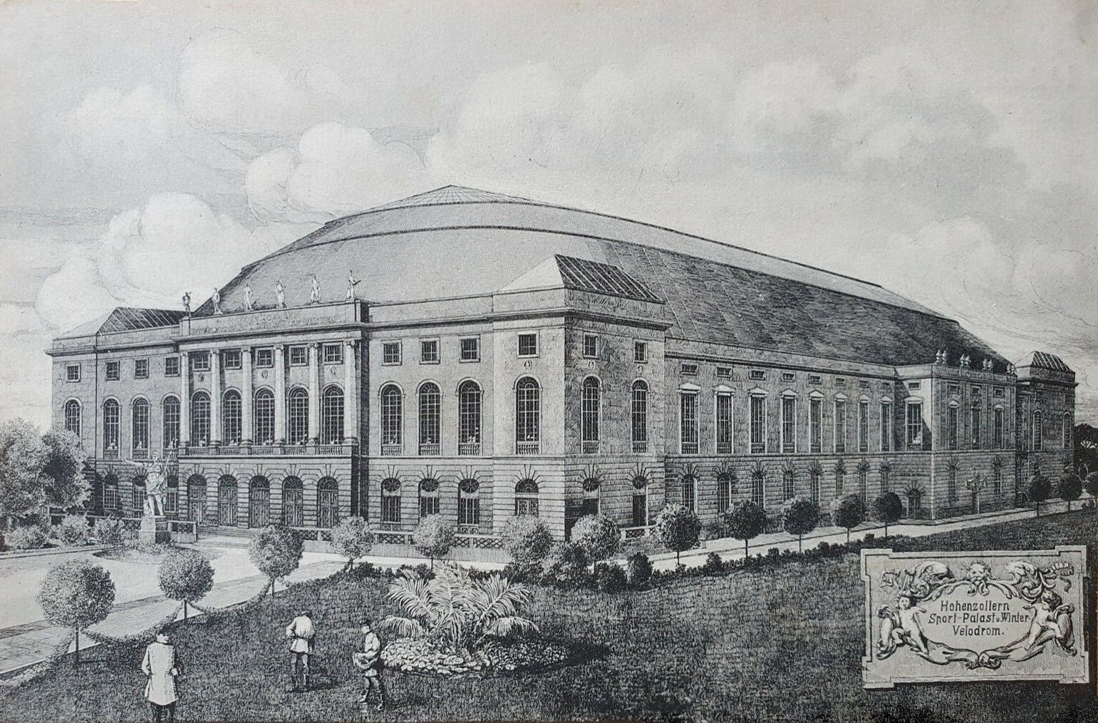 Berlin Sportpalast The graphic does not show the real building as it was actually built, but only a draft / fiction or something similar.